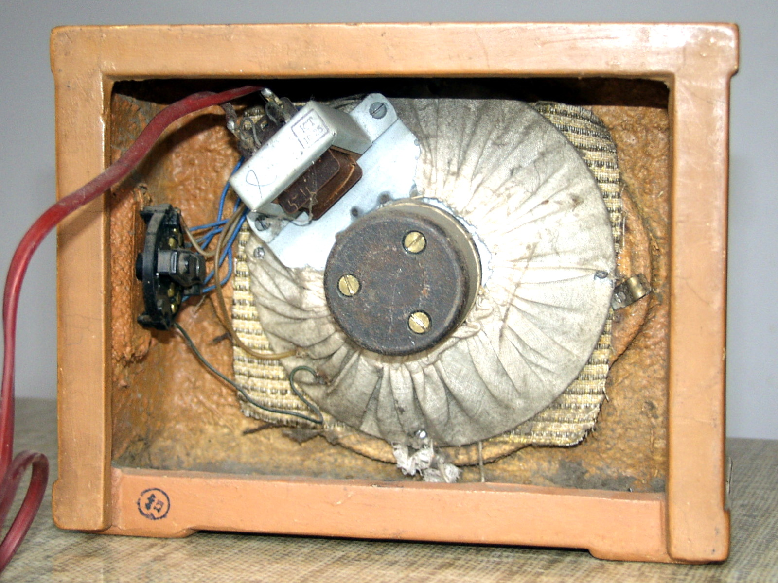 Loudspeaker GD-16,5/2 – Poland – 1957